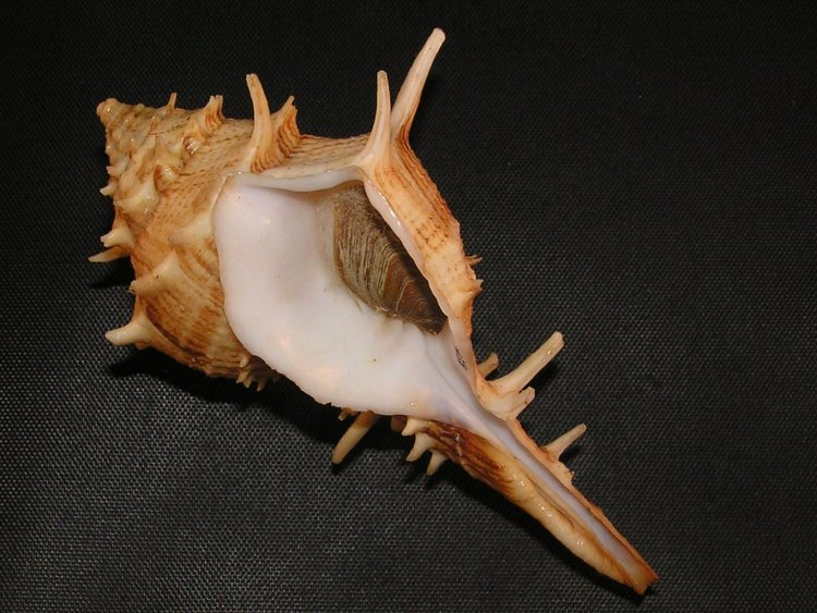 Photograph of the seashell Tudivasum armigerum (A. Adams, 1856) with operculum / Origin of image: Own collection: Australia. Queensland. Townsville.